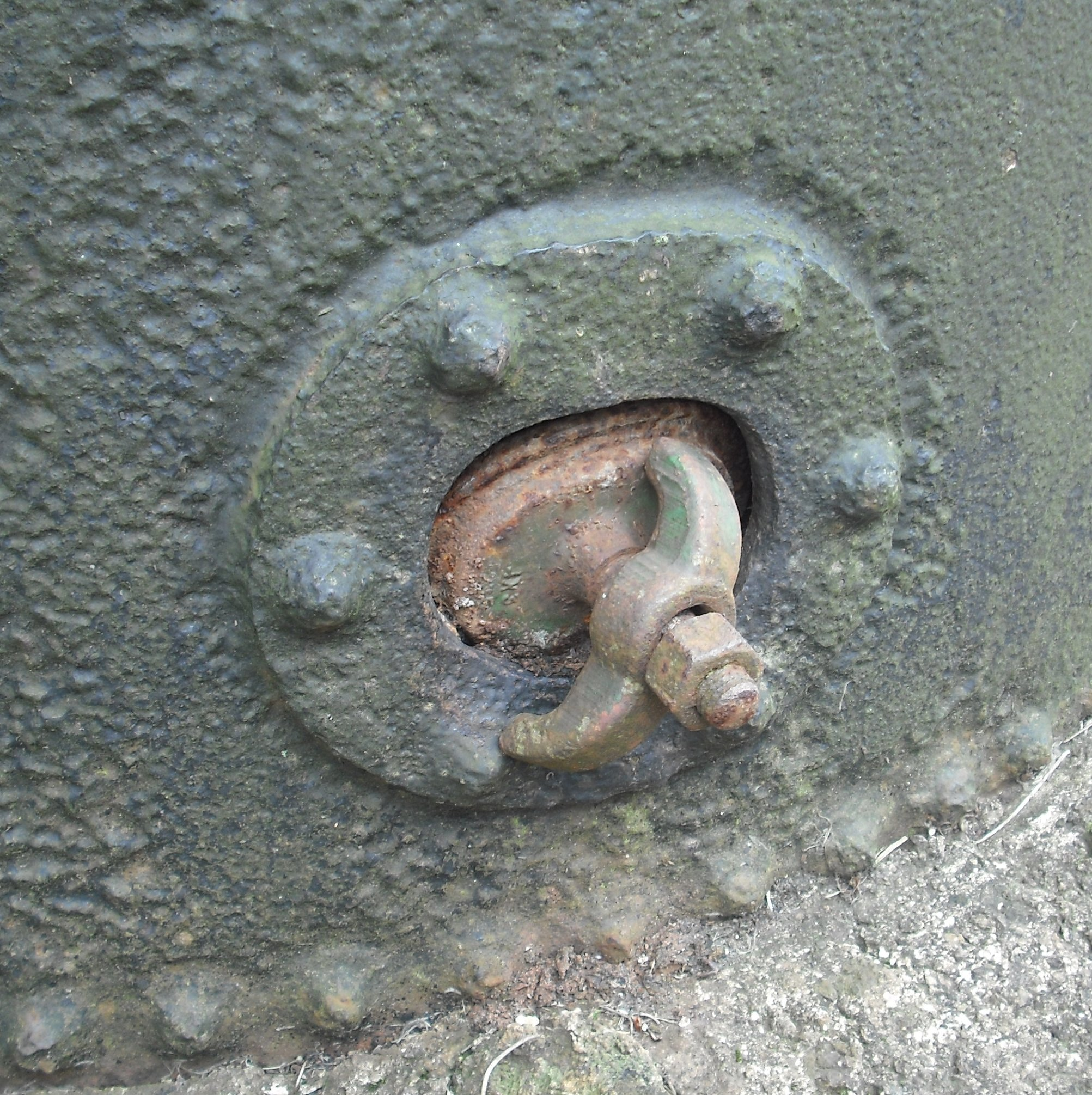 Steam boiler Mudhole or Handhole, used for washing out accumulated sludge.